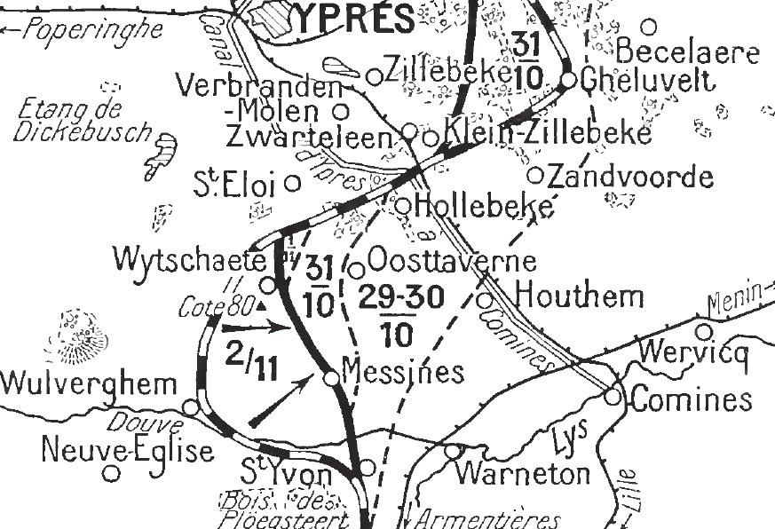 Map, French counter-attack at Messines Ridge, 2 November 1914